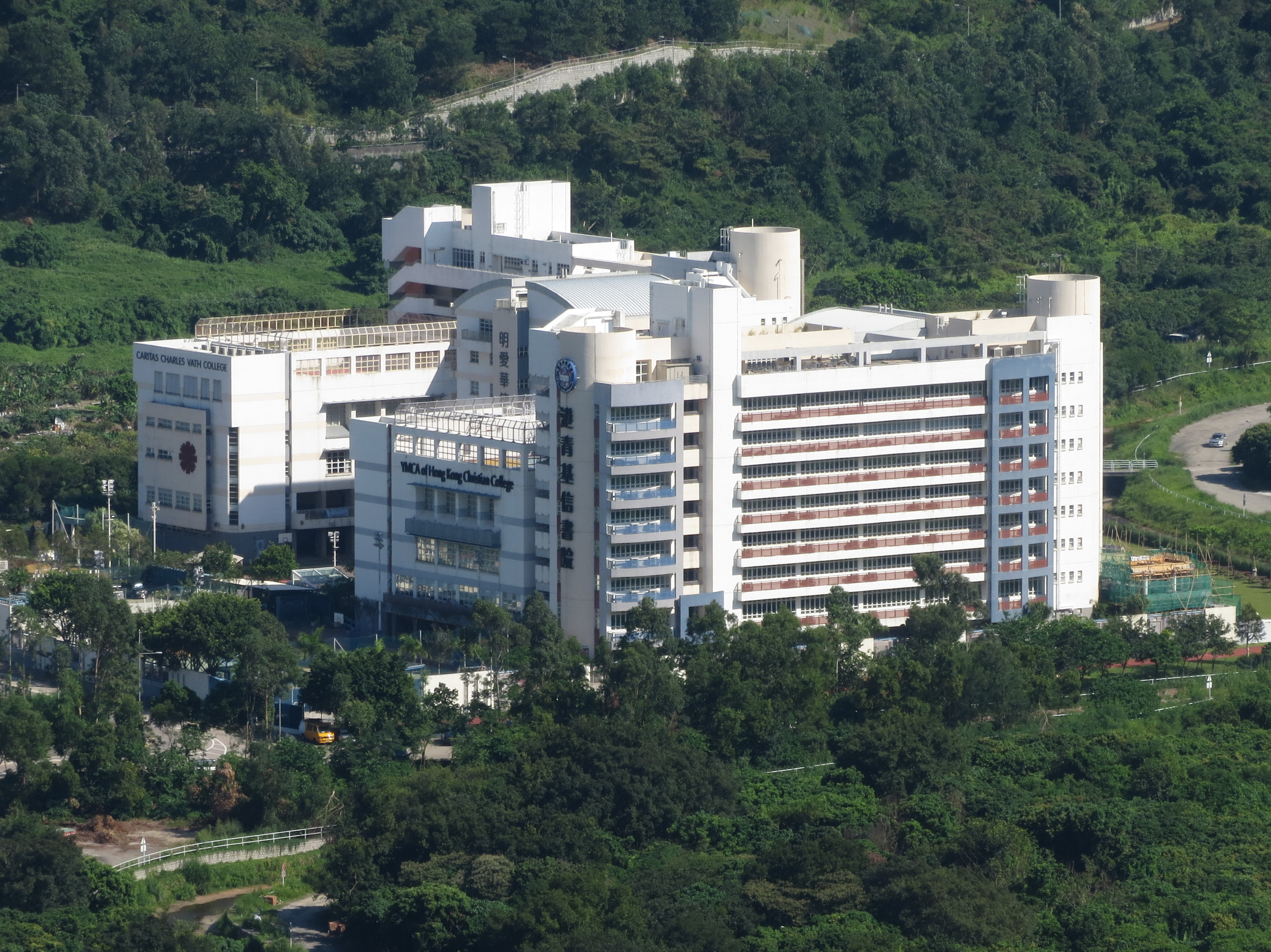 YMCA of Hong Kong Christian College (front) and Caritas Charles Vath College (rear), Tung Chung, New Territories, Hong Kong.